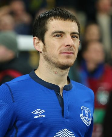 Leighton Baines playing for Everton in Europa League match against Dynamo Kiev on 19 March 2015.